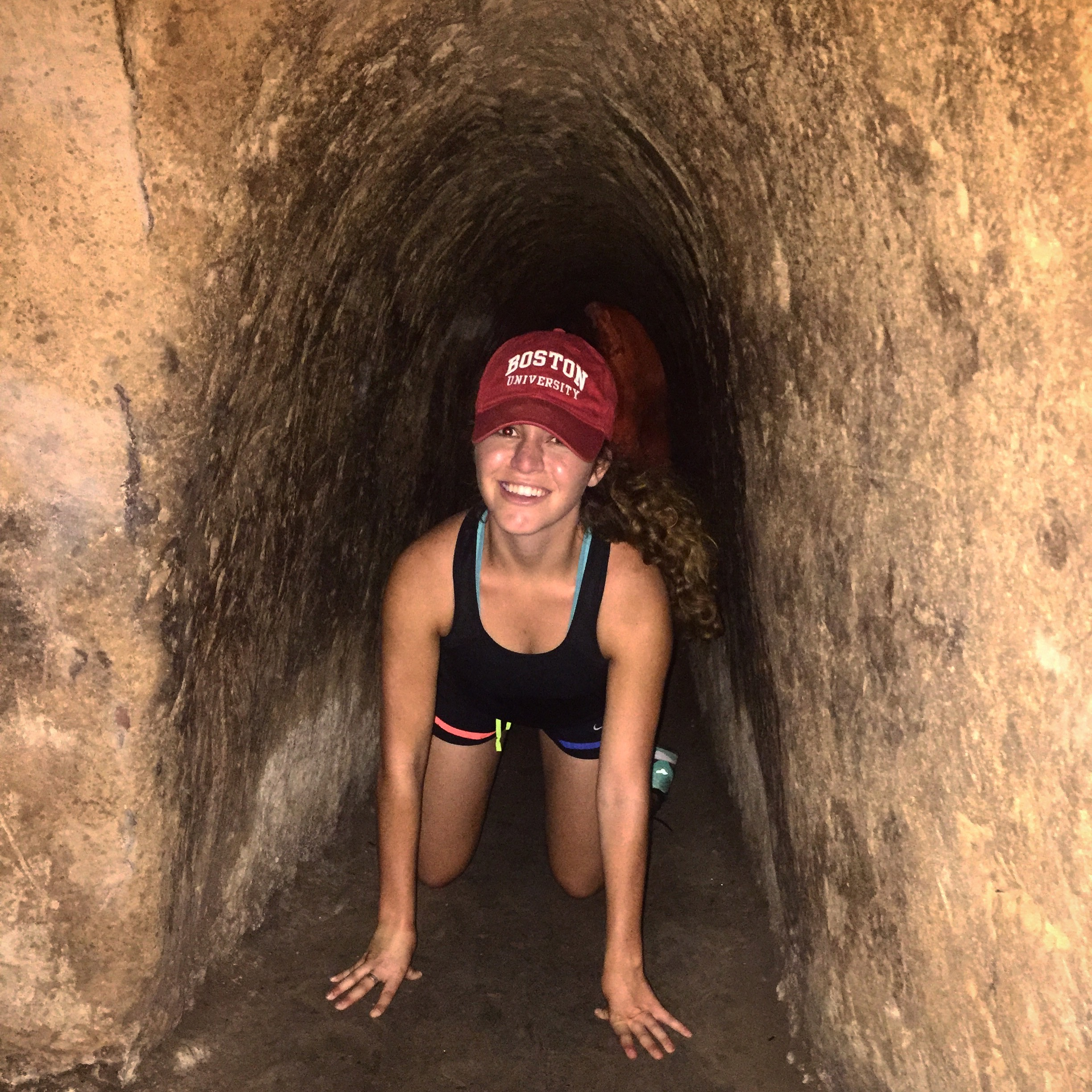 American girl crawls through Cú Chi Tunnels in Vietnam.